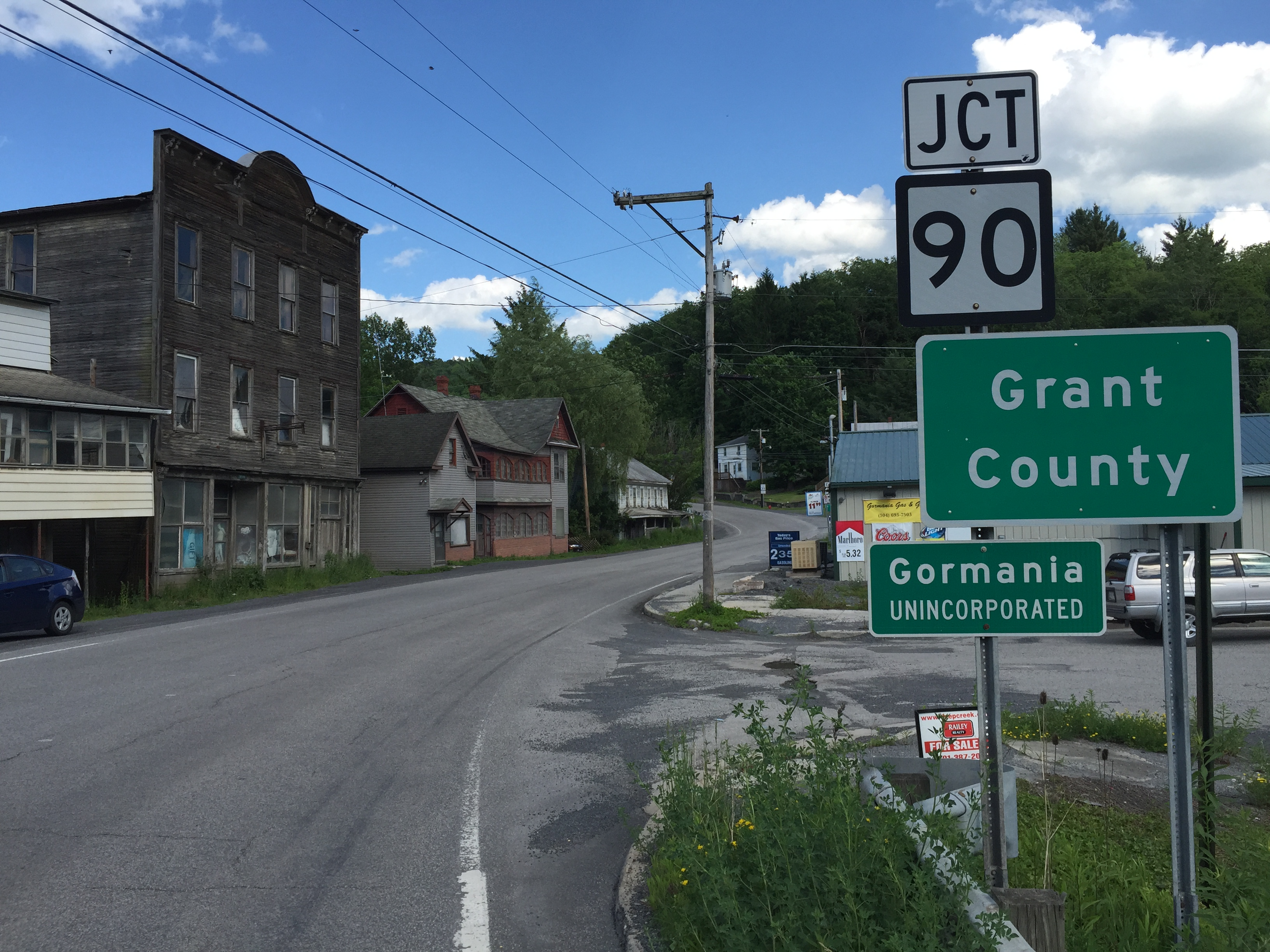 View east along U.S. Route 50 (George Washington Highway) at Mabis Avenue in Gormania, Grant County, West Virginia